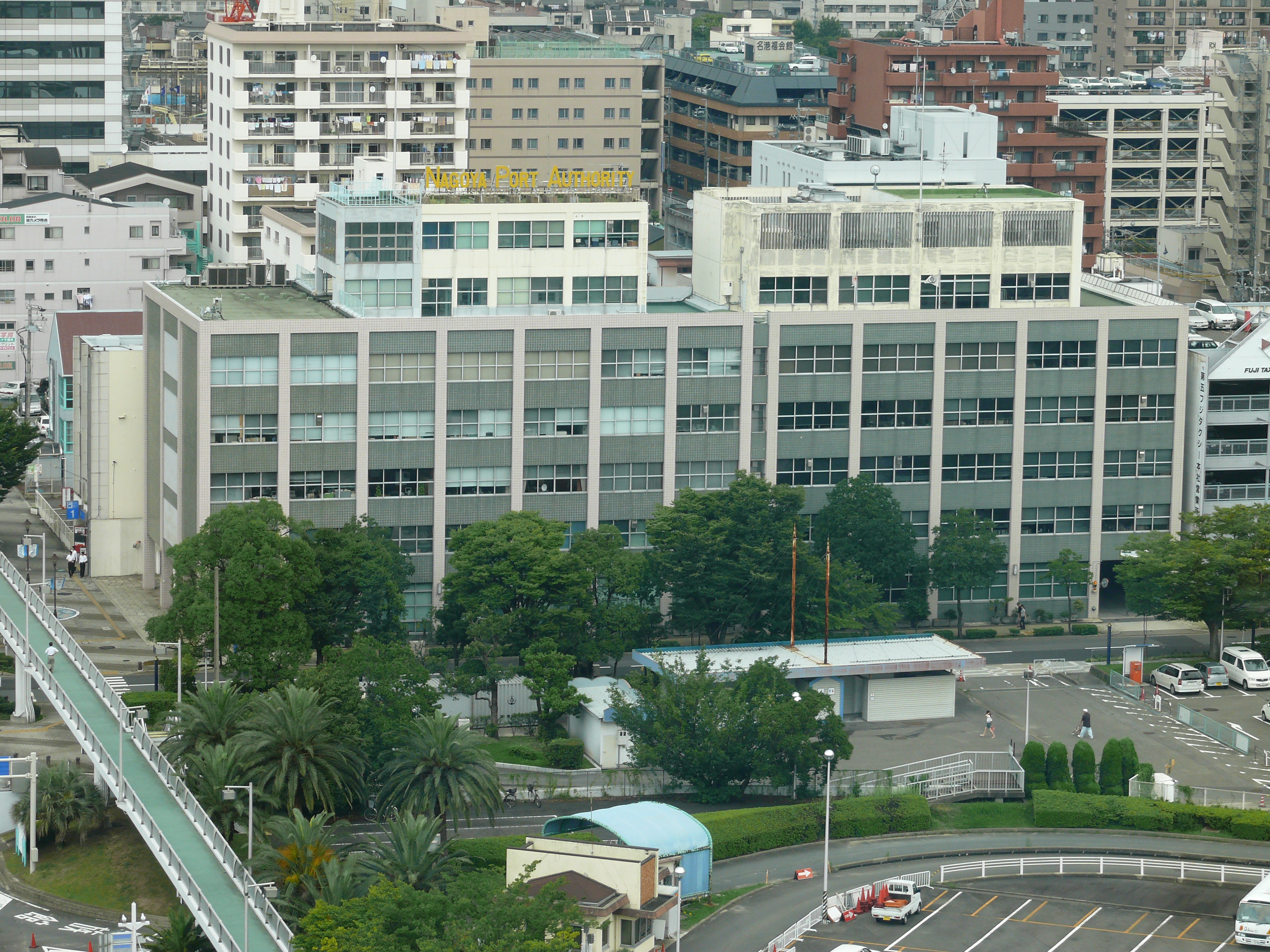 Nagoya Authority Central Government Office. takes a photograph at the Observatory of Nagoya Port bldg.